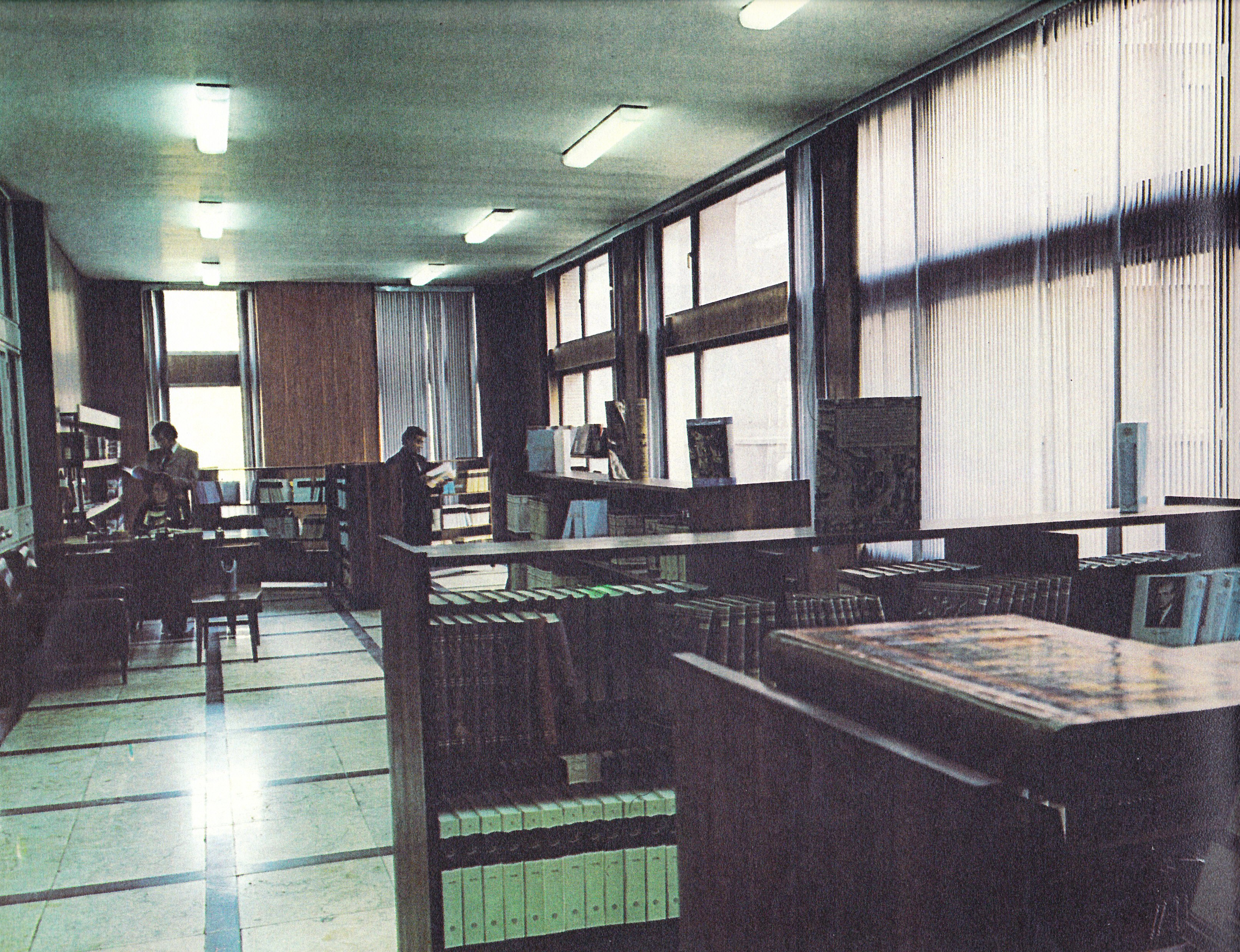 Office of Bongah Tarjomeh va Nashr Ketab, Tehran